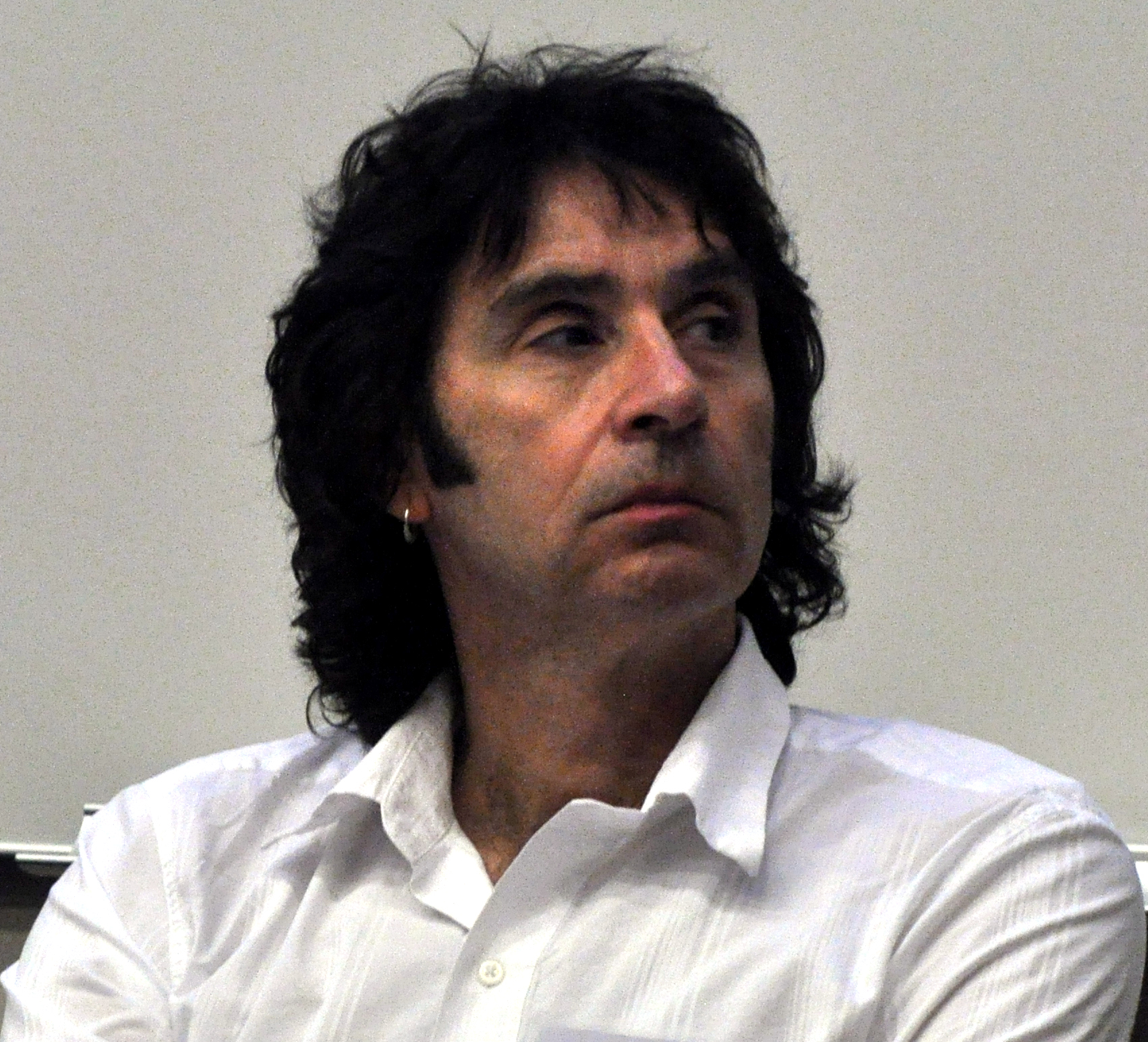 Scottish-born sociologist Andrew Ross appearing at the 2012 Pop Conference, at NYU.